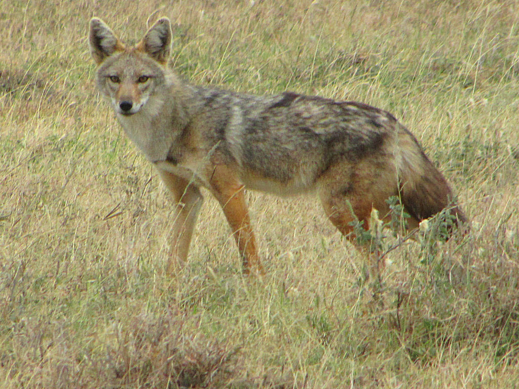 Golden wolf (Canis anthus bea), Serengeti National Park, Tanzania